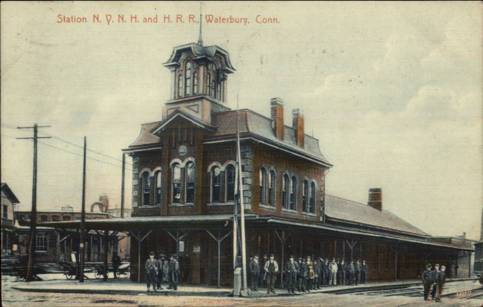 Early divided back postcard of Waterbury station, postmarked in 1909. This station was replaced by the larger Union Station that year.